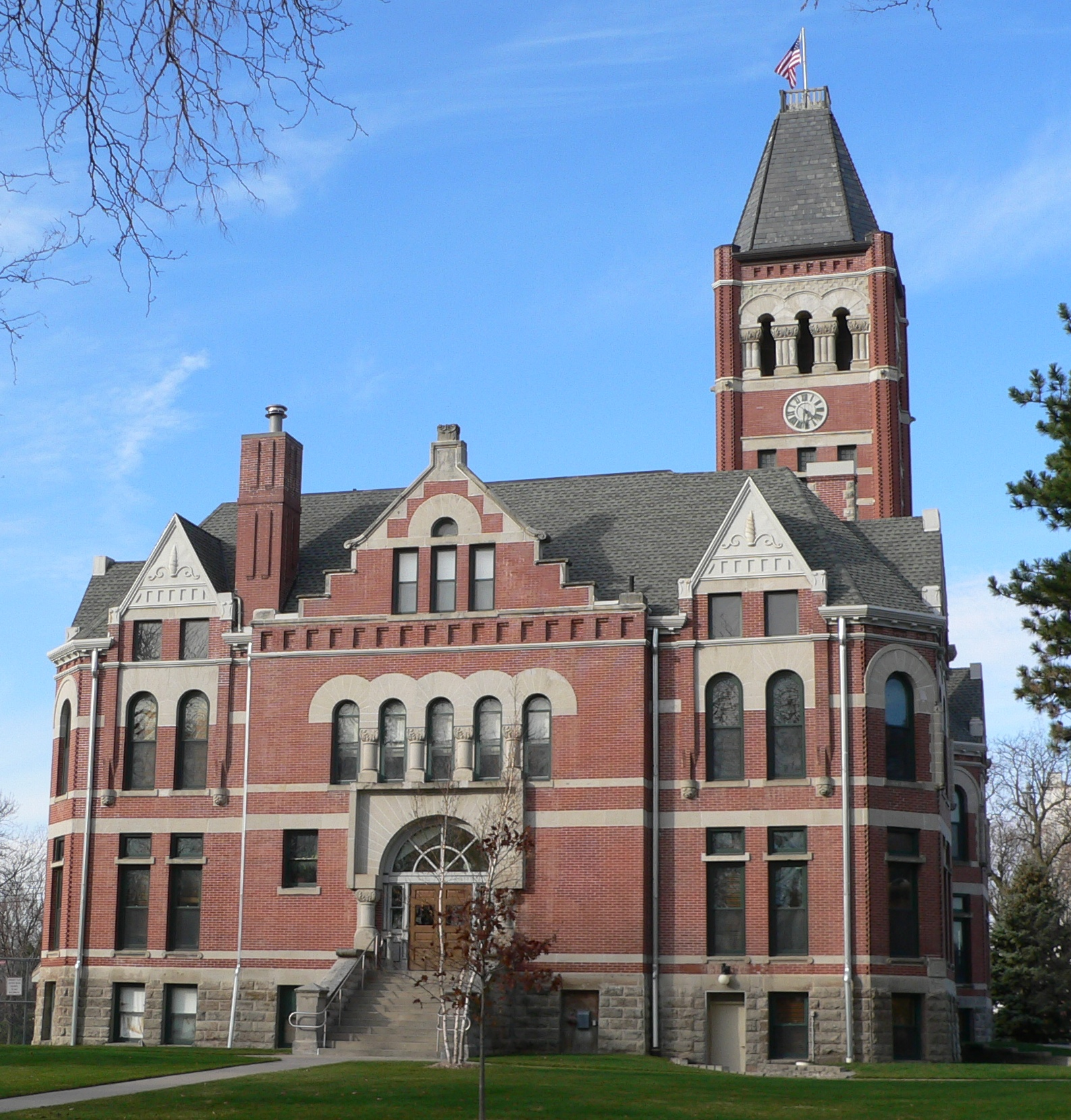 Fillmore County Courthouse in Geneva, Nebraska, viewed from the east. The building was constructed in 1892; the architects, George E. McDonald and L.F. Pardue, designed it in Richardsonian Romanesque style. The building is listed in the National Register of Historic Places.